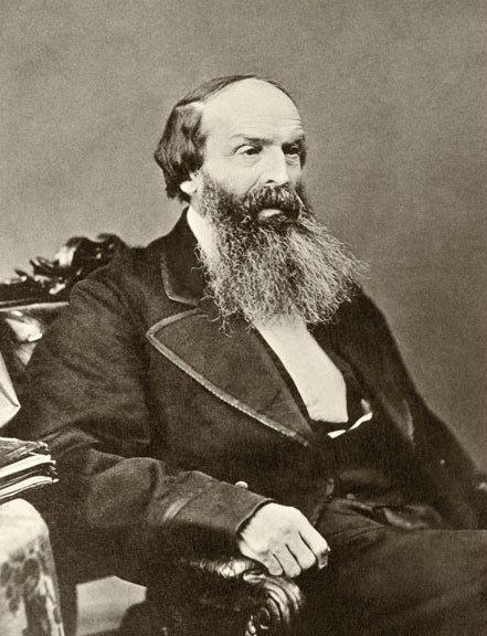 Henry Harmon Spalding (1803–1874)